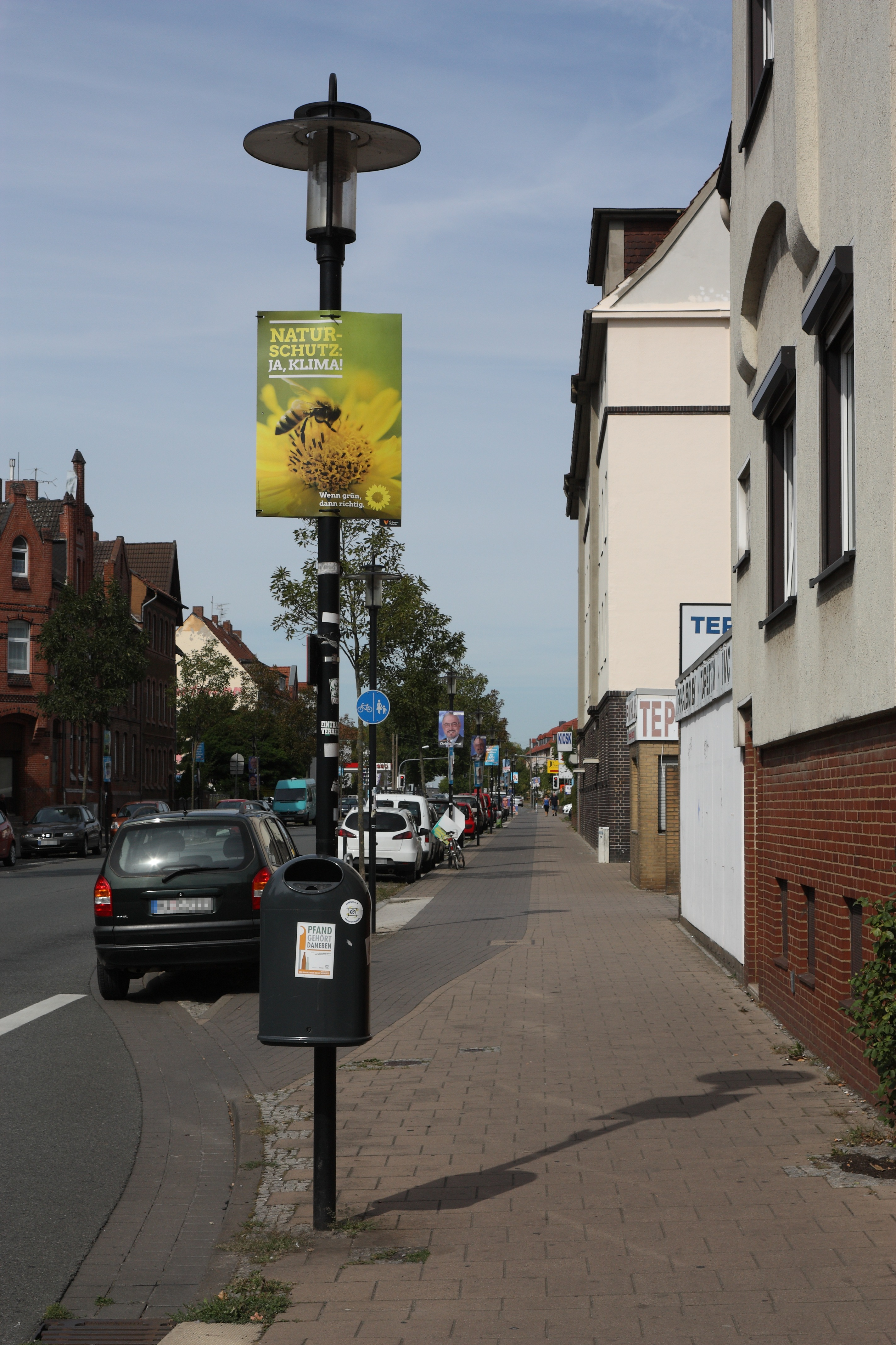 Street with election posters of local elections 2016 in Lower saxony (Germany)